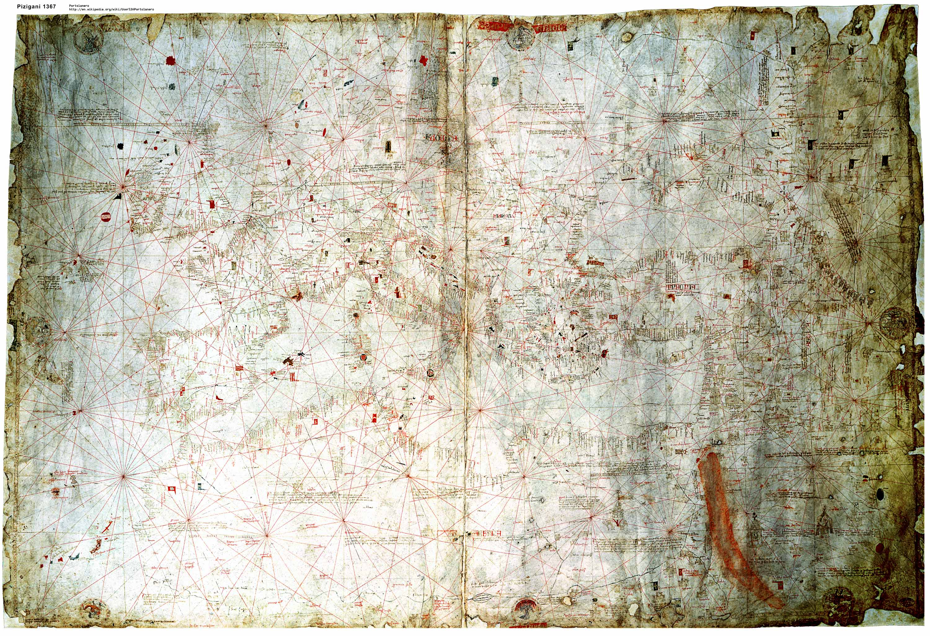 The Pizigani portolan chart of 1367 in a computer enhanced image of reduced resolution.